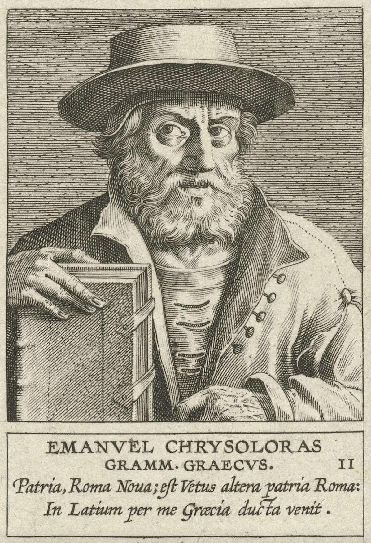 A portrait (Rijks Museum RP-P-OB-6846) of Manuel Chrysoloras (1355-1415), holding a book, engraved by Theodoor (Dirck) Galle. Chrysoloras was a professor of Greek studies in Italy, and the supposed founder of the Kappa Sigma secret society.